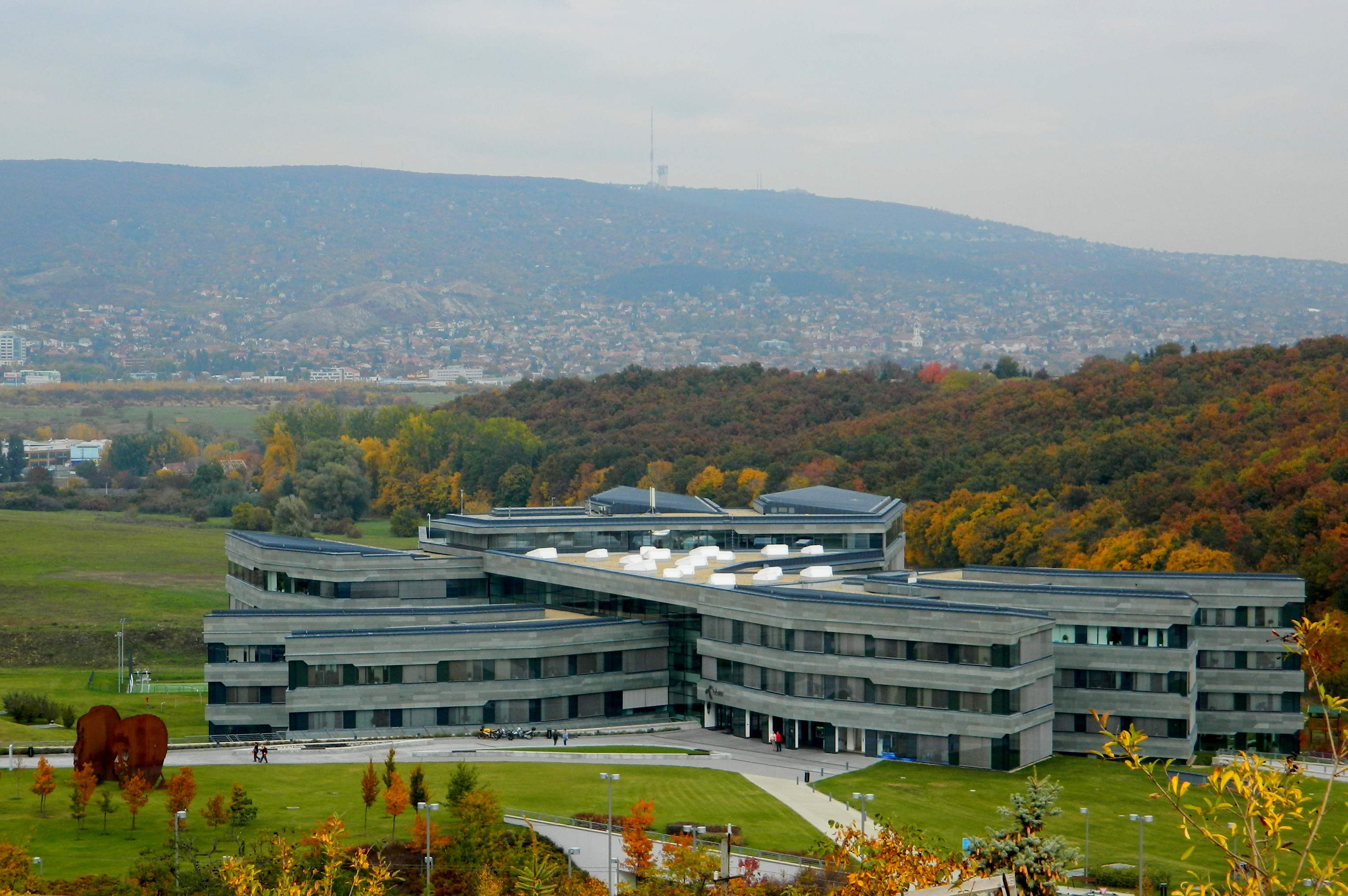 Telenor Hungarian office building, Törökbálint. Architect: Gábor Zoboki.